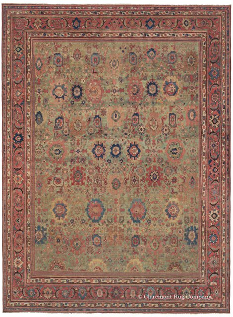 Sultanabad carpet, 12ft 8in x 17ft 0in. 2nd Quarter, 19th Century